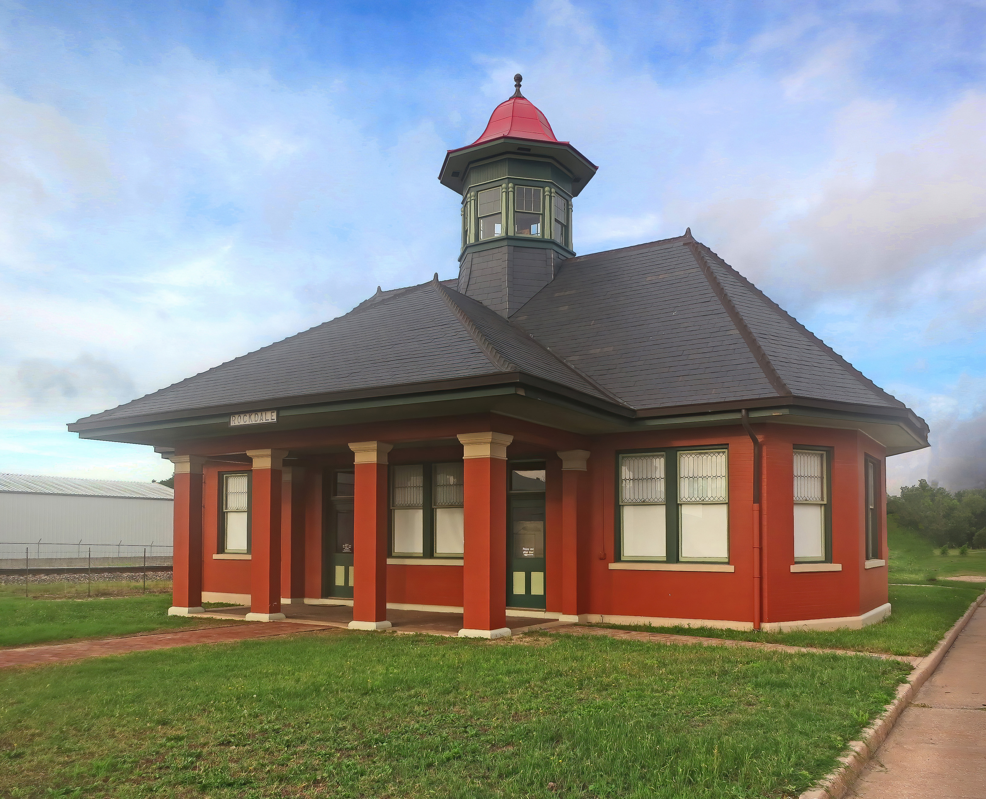 Three rail lines largely contributed to Rockdale's early commercial development, and of the three, the International & Great Northern (I&GN) made the biggest impact. This former I&GN passenger depot opened in 1906. It survived various changes to the rail company, including its transition to the Missouri Pacific line in 1956. After years of declining rail use by passengers, the last passenger train left the depot on September 21, 1970, and the building served as storage for many years. Restored at the turn of the 21st century, the depot is eclectic in design with elements of Italianate, Queen Anne and Prairie styles of architecture.